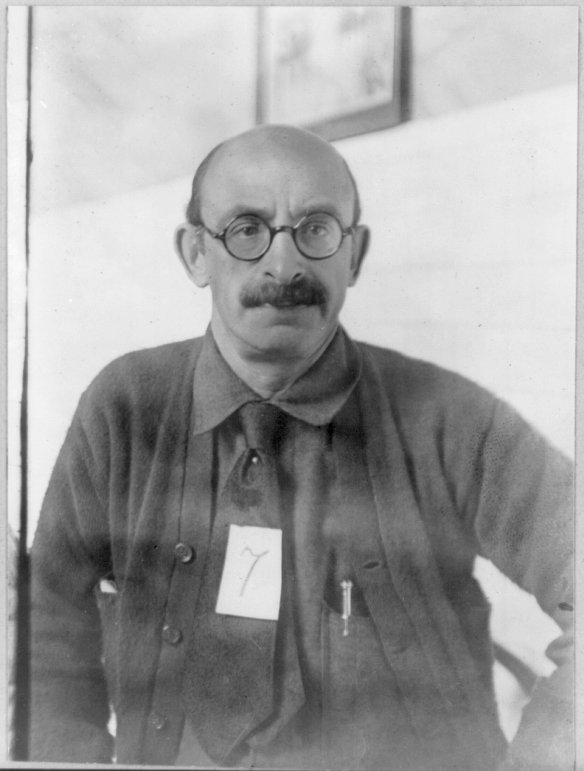 Alexander Berkman. Official photo taken prior to deportation, 1919.